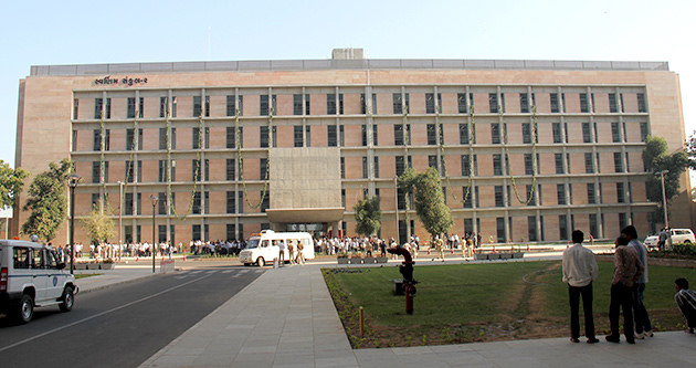 Maganbhai Ninama, a Class IV Karma Yogi in Secretariat belonging to Adivasi community inaugurated Swarnim Sankul 2